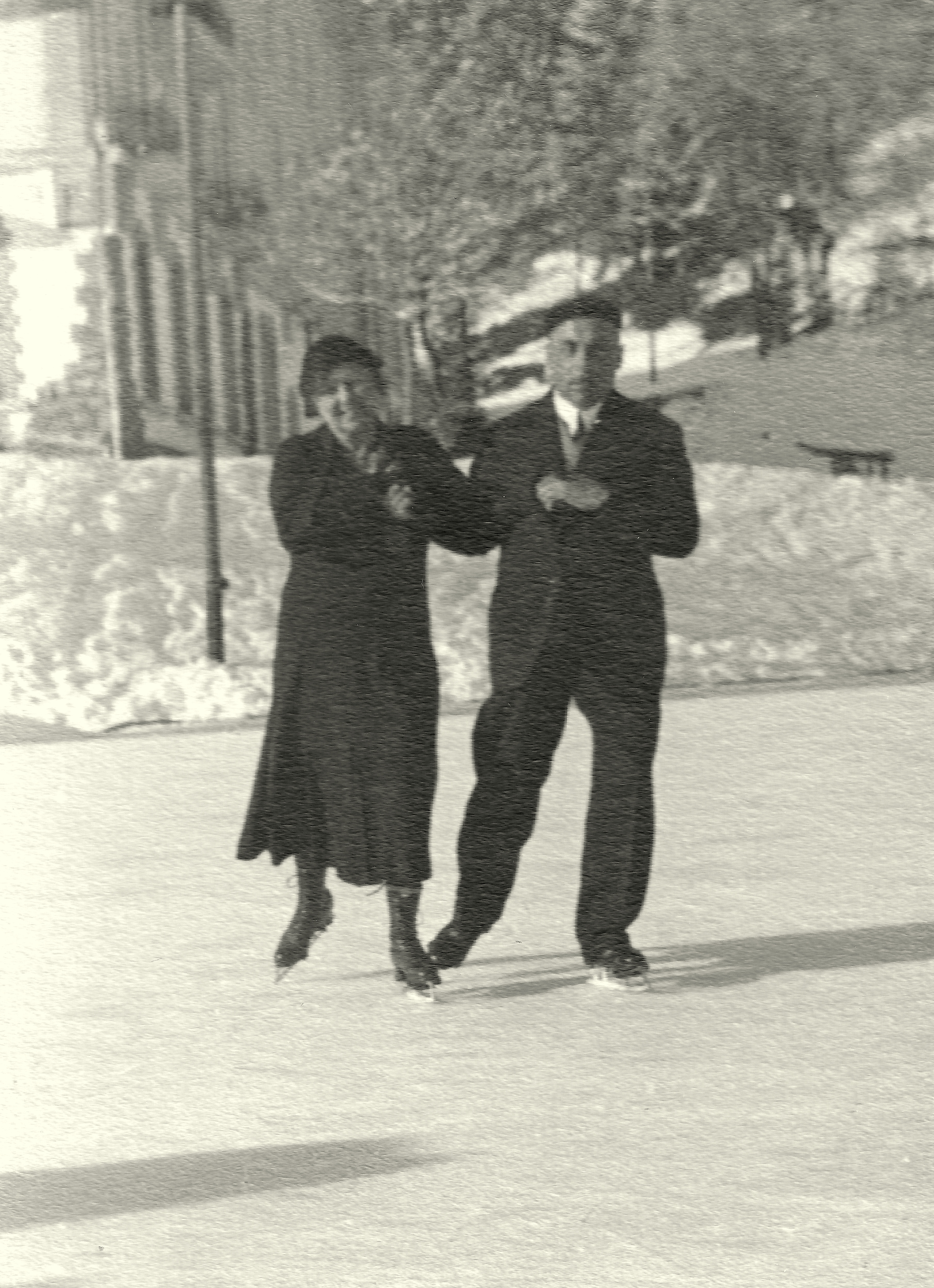 Winter resort unknown. Perhaps Sankt Moritz or Vermala (Crans-Montana). Two hobby dancers.